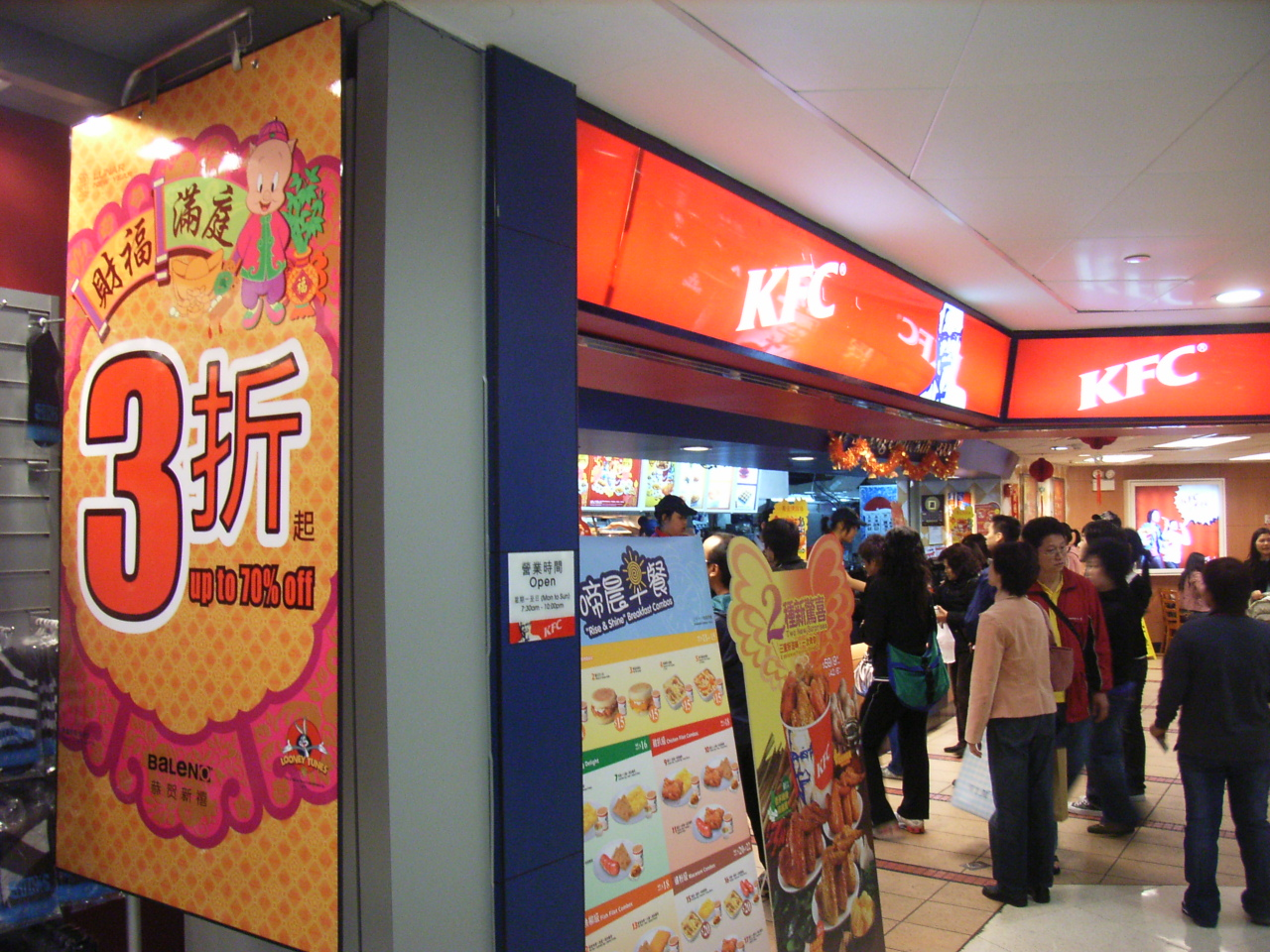 新翠花園 (New Jade Gardens)，乃位於zh:香港東區zh:柴灣的私人住宅，屬地鐵柴灣站的上蓋物業。 Photo Author: User:BLUEAST